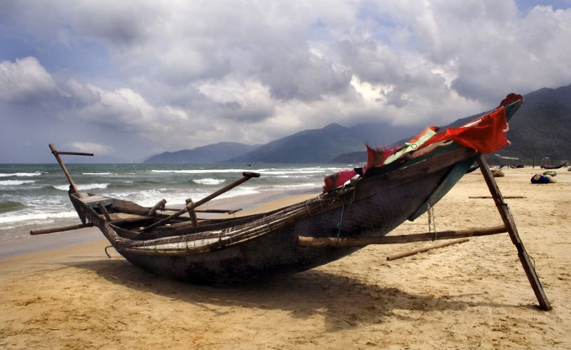 Fishing boat at Lang Co Beach, between Hoi An and Hue, Vietnam